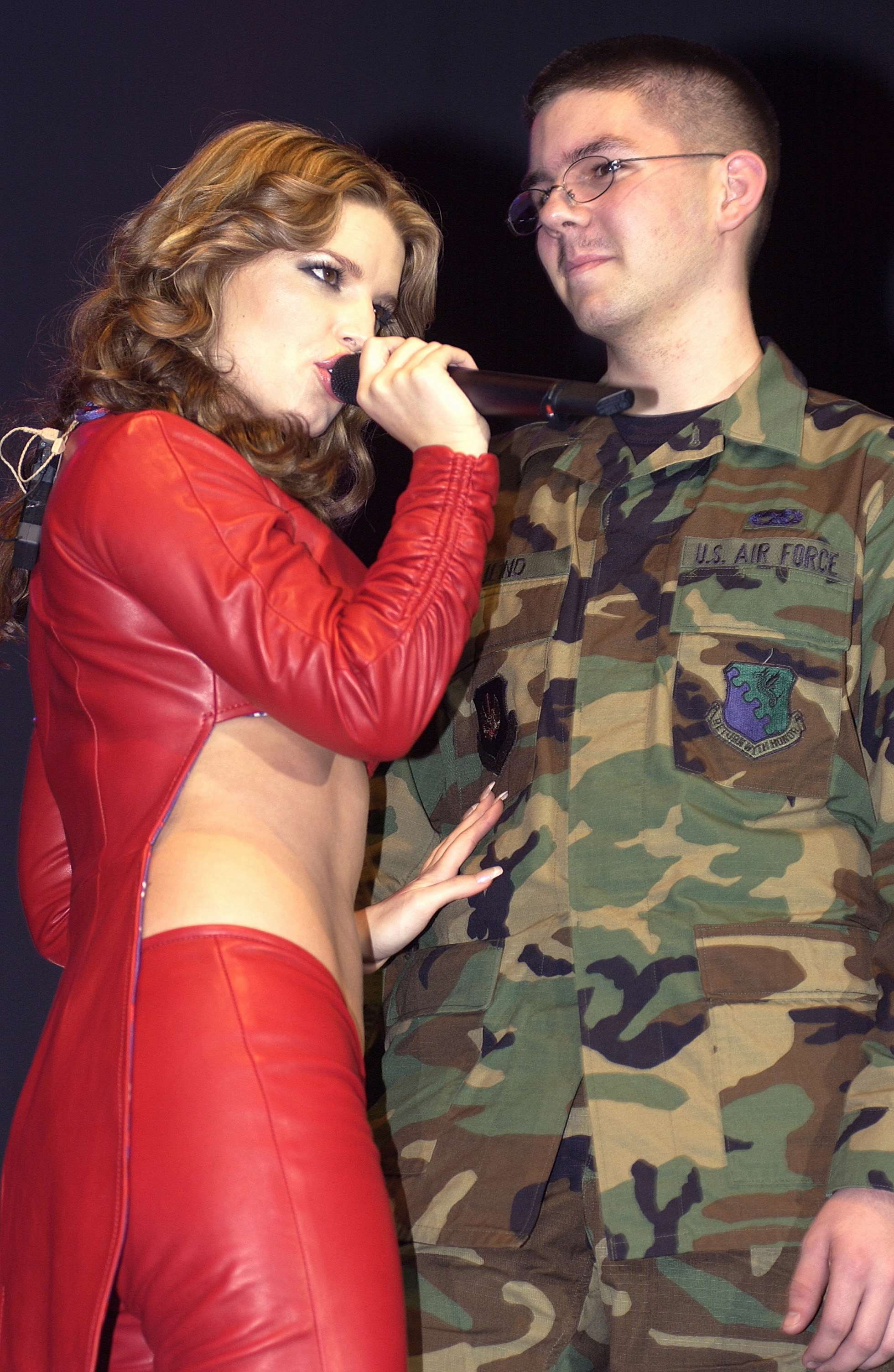 Airman First Class David Friend, USAF, 31st Maintenance Squadron, gets a close and personnel performance from recording artist, Jessica Simpson on stage at Aviano Air Base in Italy during a USO sponsored show - USO Holiday Tour 2001. The USO produces at least 20 overseas entertainment tours each year, reaching tens of thousands of service men and women. Well-known entertainers volunteer their time to perform morale-boosting shows for US military personnel stationed overseas.